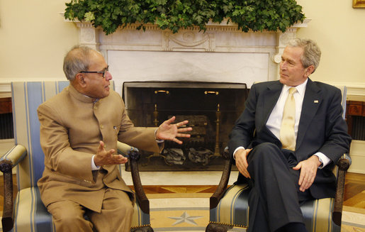 President George W. Bush meets with India's Minister of External Affairs Pranab Kumar Mukherjee.